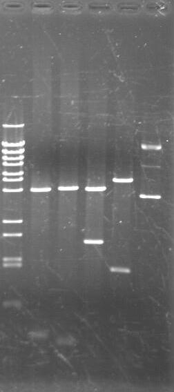 Minipreparation of plasmidic DNA and digestive treatment with restriction enzymes.